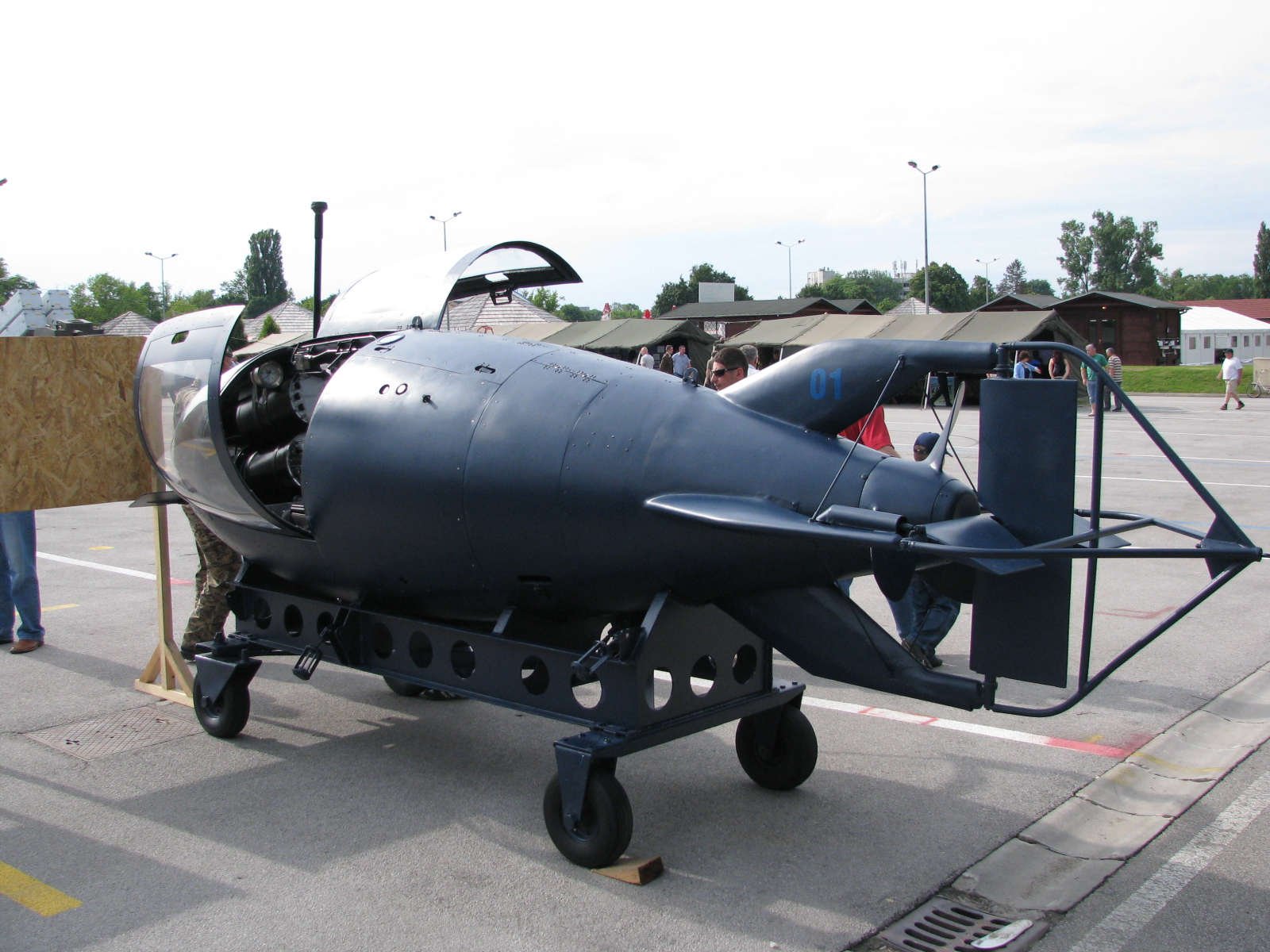 Croatian R-2M submersible